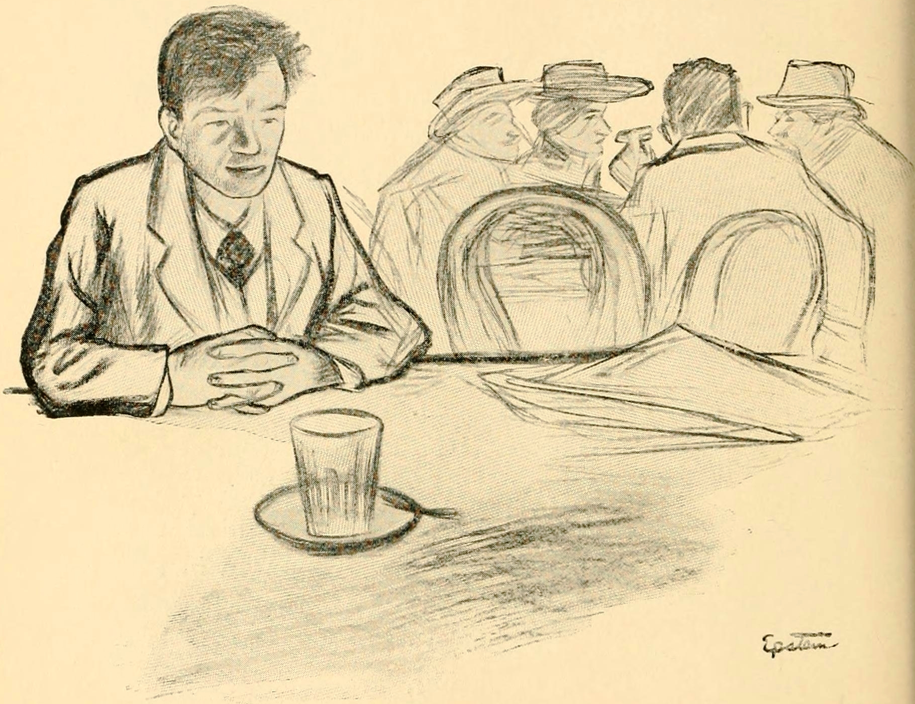 From :The spirit of the Ghetto; studies of the Jewish quarter in New York